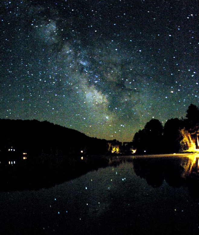 Tried to do a night Sky shot, harder than anticipated, but I wanted to get the stars and milky way reflected in the water.Milky Way